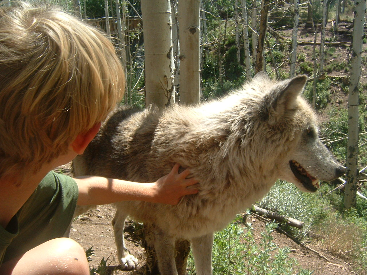 Magpie ("Maggie") being petted by a young visitor.